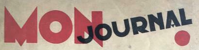 Mon Journal, title logotype (Lyon: 1946-1948).